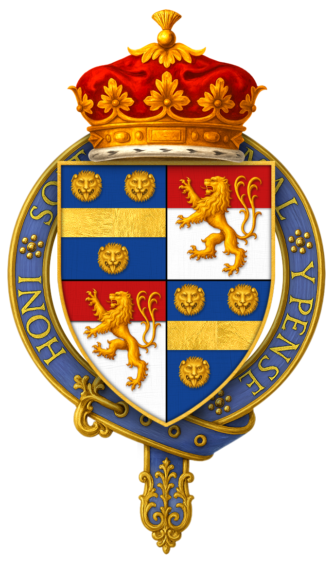 Sir John de la Pole, 2nd Duke of Suffolk, KG HOPE, W. H. St. John, The Stall Plates of the Knights of the Order of the Garter 1348 – 1485: A Series of Ninety Full-Sized Coloured Facsimiles with Descriptive Notes and Historical Introductions, Westminster: Archibald Constable and Company LTD, 1901. “ Plate LXXIX - Sir John de la Pole, Duke of Suffolk, K.G. c. 1472-1491… bearing the arms, quarterly: 1 and 4, azure a fess and three leopards' heads gold (for de la Pole); 2 and 3, silver a chief gules and over all a lion with forked tail gold (for Chaucer)... ” Suffolk's stall plate remains intact within the fifth stall, on the south side of the quire.